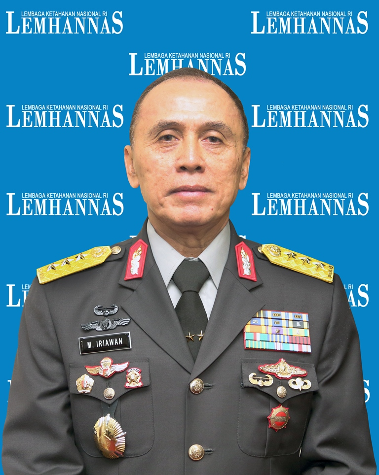 Mochamad Iriawan as Main Secretary of National Resilience Institute